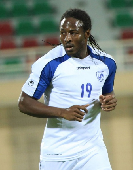 Pan Pierre Koulibaly in a match for Saham Club in Omani League against Al Nahda Club. 23 January 2016 Al-Buraimi Stadium, Al-Buraimi, Oman Photographer email id